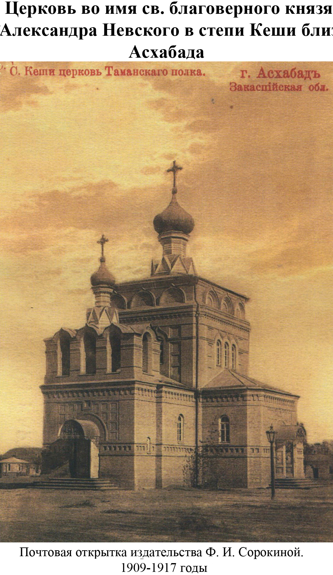 Church in honor of St. Prince Alexander Nevsky in the steppe near Keshi Ashkhabad. Postal card publishers F. I. Sorokina. 1909 -1917 years.